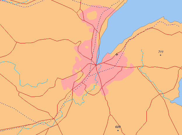 Country: Belfast, Northern Ireland template.